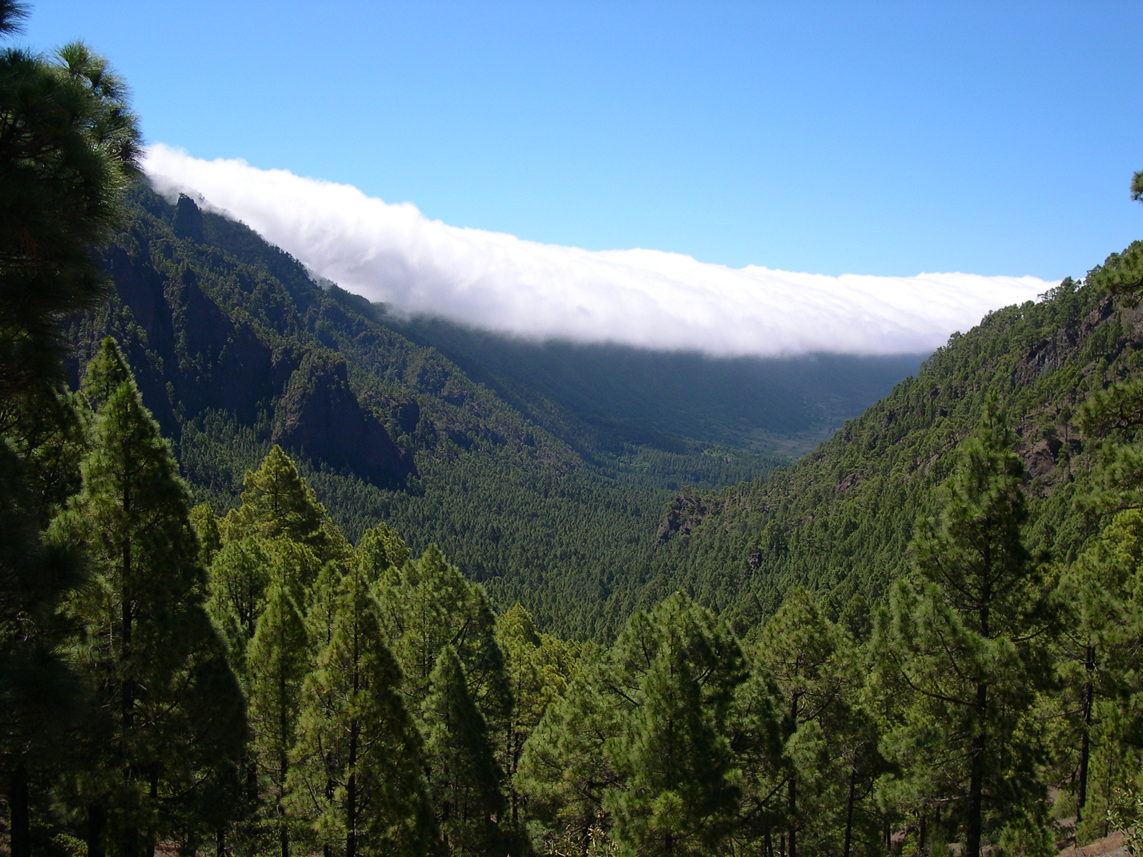 Caldera de Taruriente, La Palma, Canary islands (España).